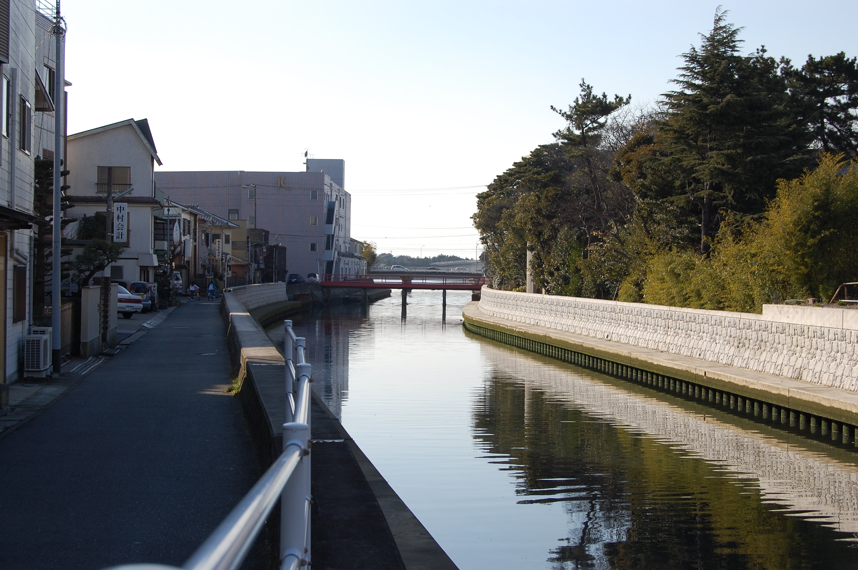 Yana river, Kisarazu city, Chiba, Japan.